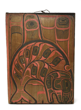 Box drum kóok gaaw “box drum” Language: Lingít Eeshaan du keedí (Our poor Killer Whale.) I’m just going to say the words to you. Goosú du aaní? (Where is its land?) Gaashú ch’á I aaneex´yéi eetí? (Why didn’t you stay at home?) Eeshaan du keedí. (Our poor Killer Whale.)…And the old ladies began to cry, and they said, ‘Our poor Killer Whale. Where is your home? —Clarence Jackson, 2005 Drums sound out the heartbeat of grief, as expressed in the Killer Whale mourning song. Box drums accompany singing during funerals and at the memorial ku.éex’ (memorial potlatch) ceremonies that come later. The box drum is a wide plank of red cedar, steamed and bent at the corners, with a separate top piece attached by nails. The painted design represents the Killer Whale. Box drums were traditionally suspended from the ceiling of a lineage house and played by young men; the technique is to hit the inside with fist or fingers to vary the volume and tone. Culture: Tlingit Region: Southeast Alaska Village: Wrangell Object Category: Ceremony Dimensions: Length 96cm Accession Date: 1905 Source: Dr. John R. Swanton (collector) Museum: National Museum of Natural History Museum ID Number: E233491